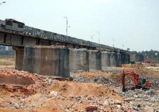 Old Bridge Construction